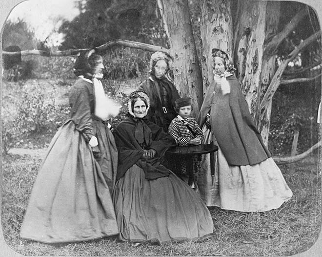 Abraham caroline harriet, son, and bishop wives. via Anne Kirker. 'Abraham, Caroline Harriet', from the Dictionary of New Zealand Biography. Te Ara - the Encyclopedia of New Zealand, updated 23-Sep-2013 URL: (from left) Emily Harper, wife of Henry Harper; Sarah Selwyn, wife of Bishop George Selwyn; Caroline Harriet Abraham, wife of Bishop Charles Abraham and (seated) Jane Williams, wife of Bishop William Williams. The little boy is thought to be Caroline Abraham's son, Charlie (Charles Abraham (bishop of Derby)).